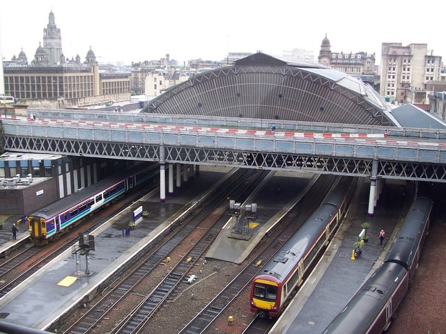 Queen Street Station High level A birds-eye view of the high level station taken from Buchannan Galleries shopping centre which has a picture window spanning the tracks. Apparently Queen St. is the only remaining arch-roofed station in Scotland. Seven terminal platforms share two tracks through the tunnel out of the station. See the low level platforms here 428324.